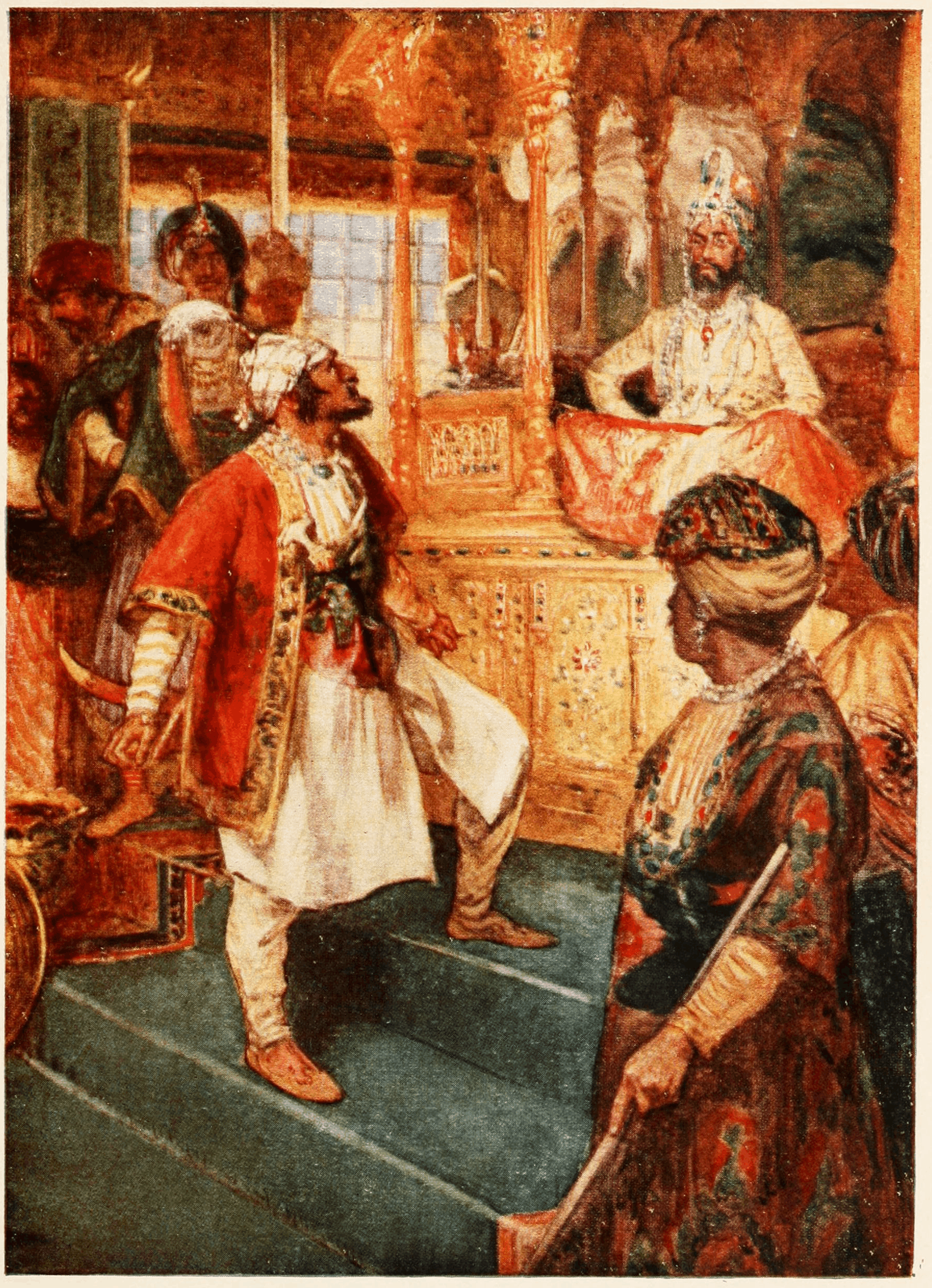 Romance of Empire India